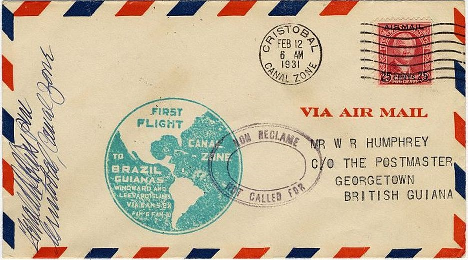 Canal Zone air mail cover, with 25c overprint on 2c Goethals issue, postmarked